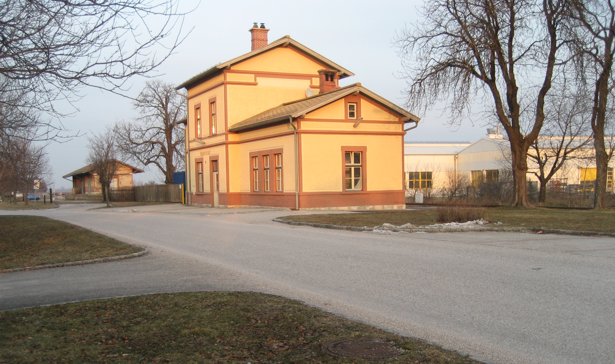 train station Ober Waltersdorf in Lower Austria